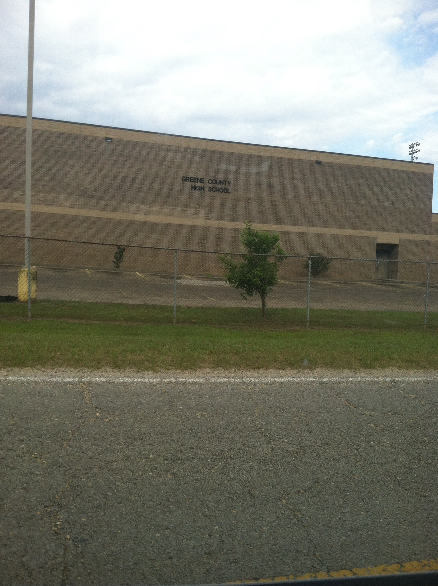 Greene County High School - 4336 High School Road Leaksville, MS 39451